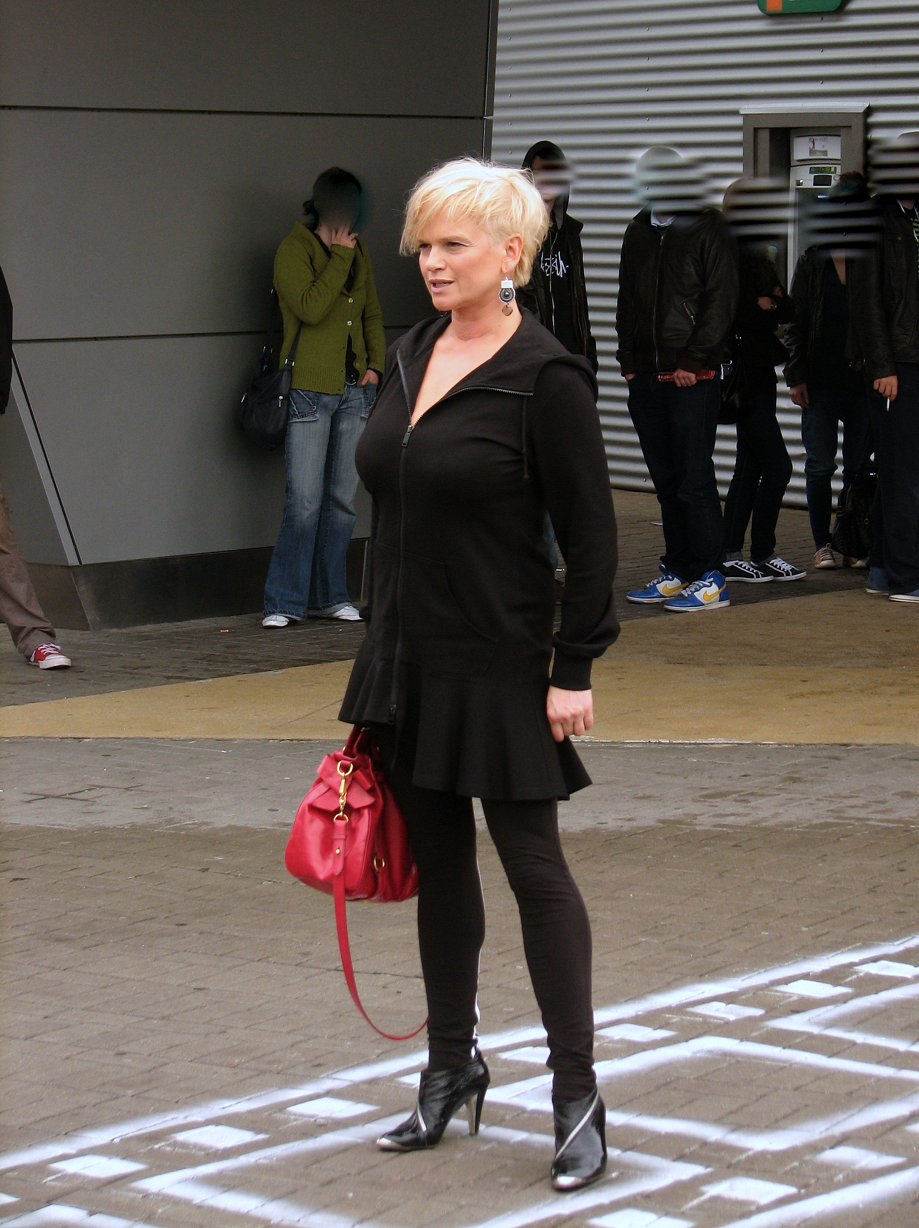 Katarzyna Figura during XXXV Polish Film Festival in Gdynia 2010.